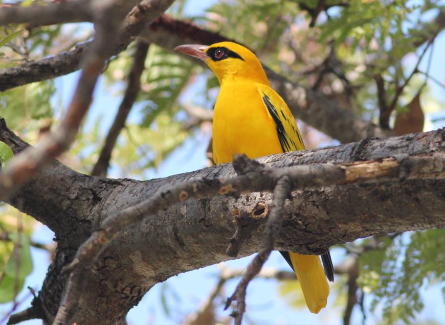 African golden oriole at Namwi Island Campsite in Katima Mulilo, Caprivi, Namibia